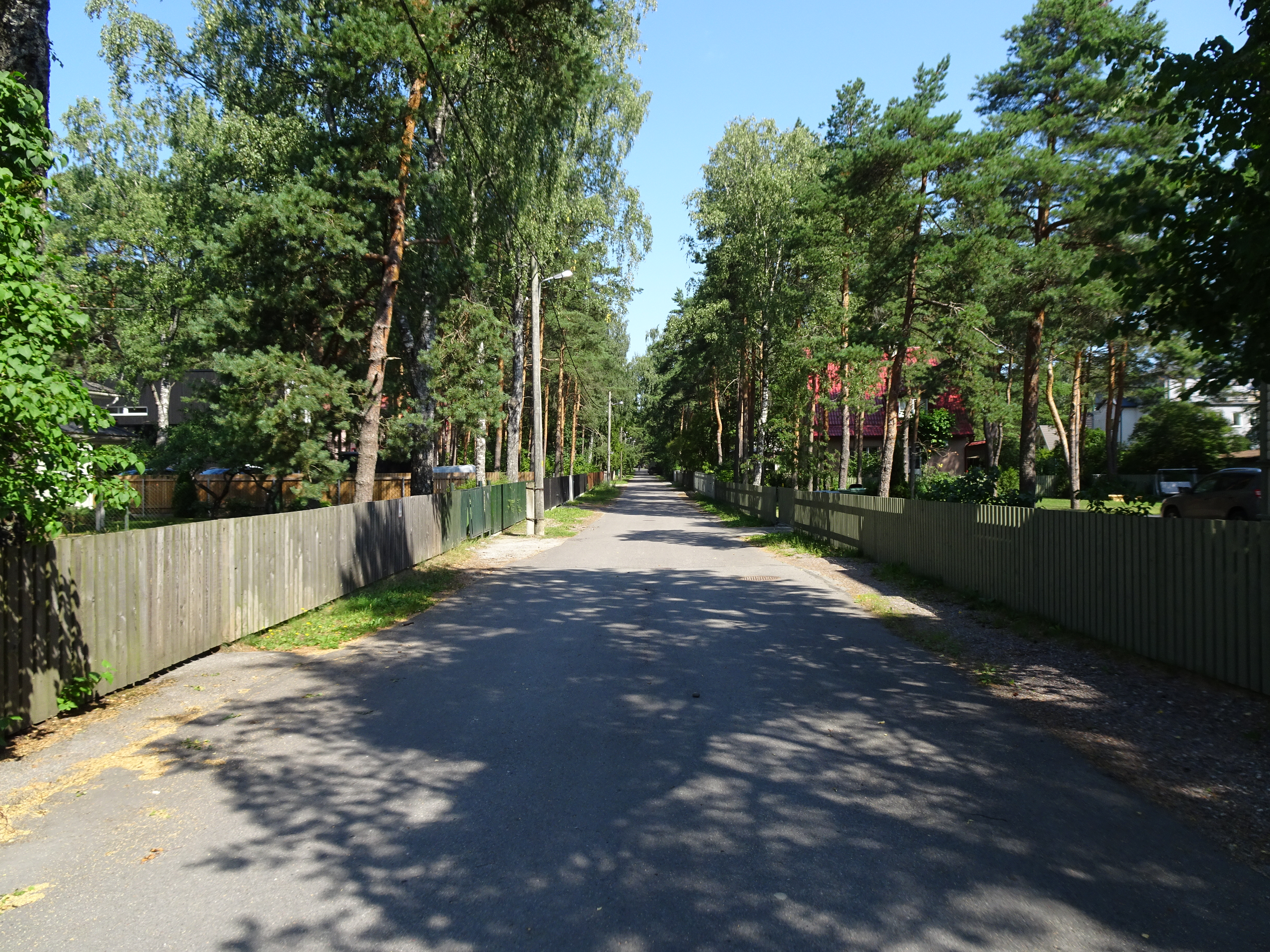 Sisaski Street in Tallinn, Estonia